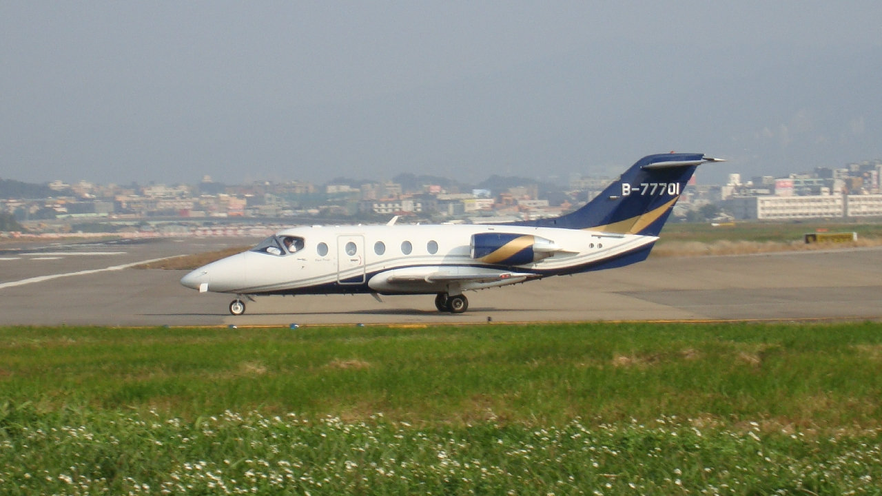 Sunrise Airlines HAWKER 400XP Medical plane.中文（台灣）: 台灣中興航空醫療專機 霍克400XP。